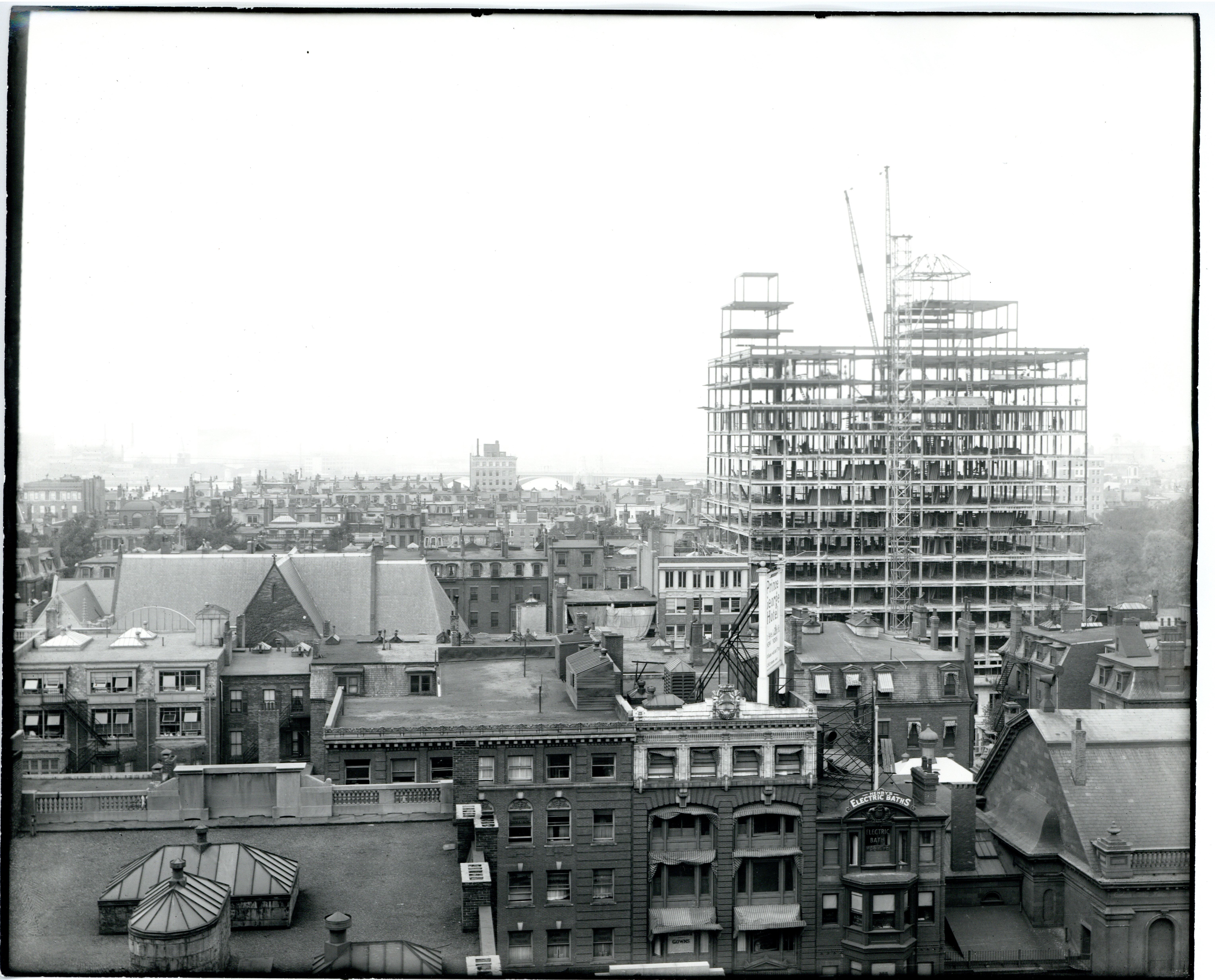 Title: Ritz Carlton under construction Creator: Boston Transit Commission Date: 1926 September 7 Source: Public Works Department photograph collection, 5000.009 File name: 5000_009_0778 Rights: Copyright City of Boston Citation: Public Works Department photograph collection, Collection 5000.009, City of Boston Archives, Boston